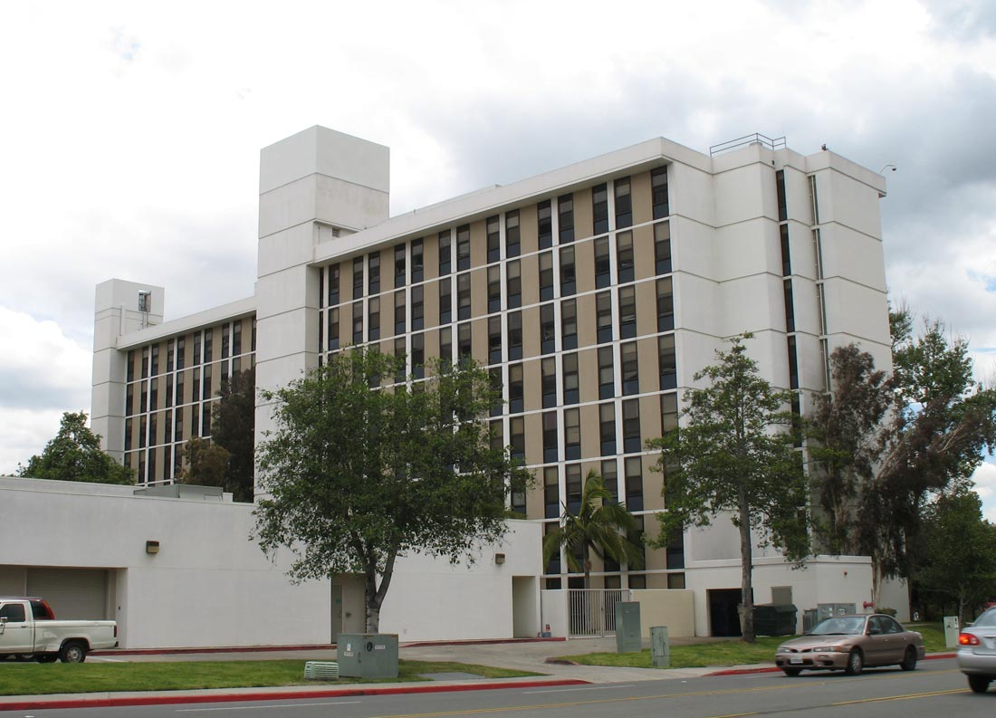 Tenochca residence hall at San Diego State University